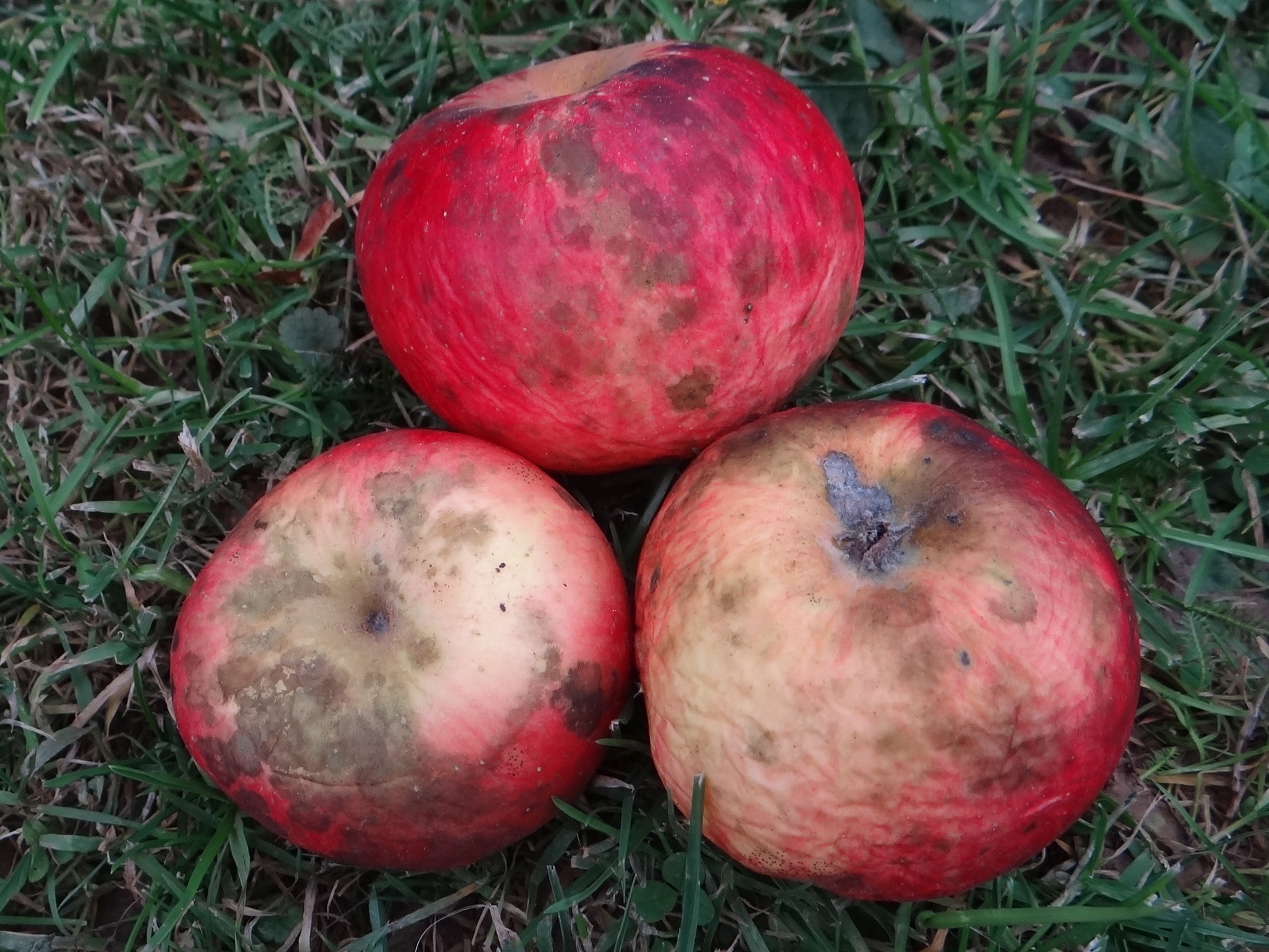 Sooty blotch and flyspeck